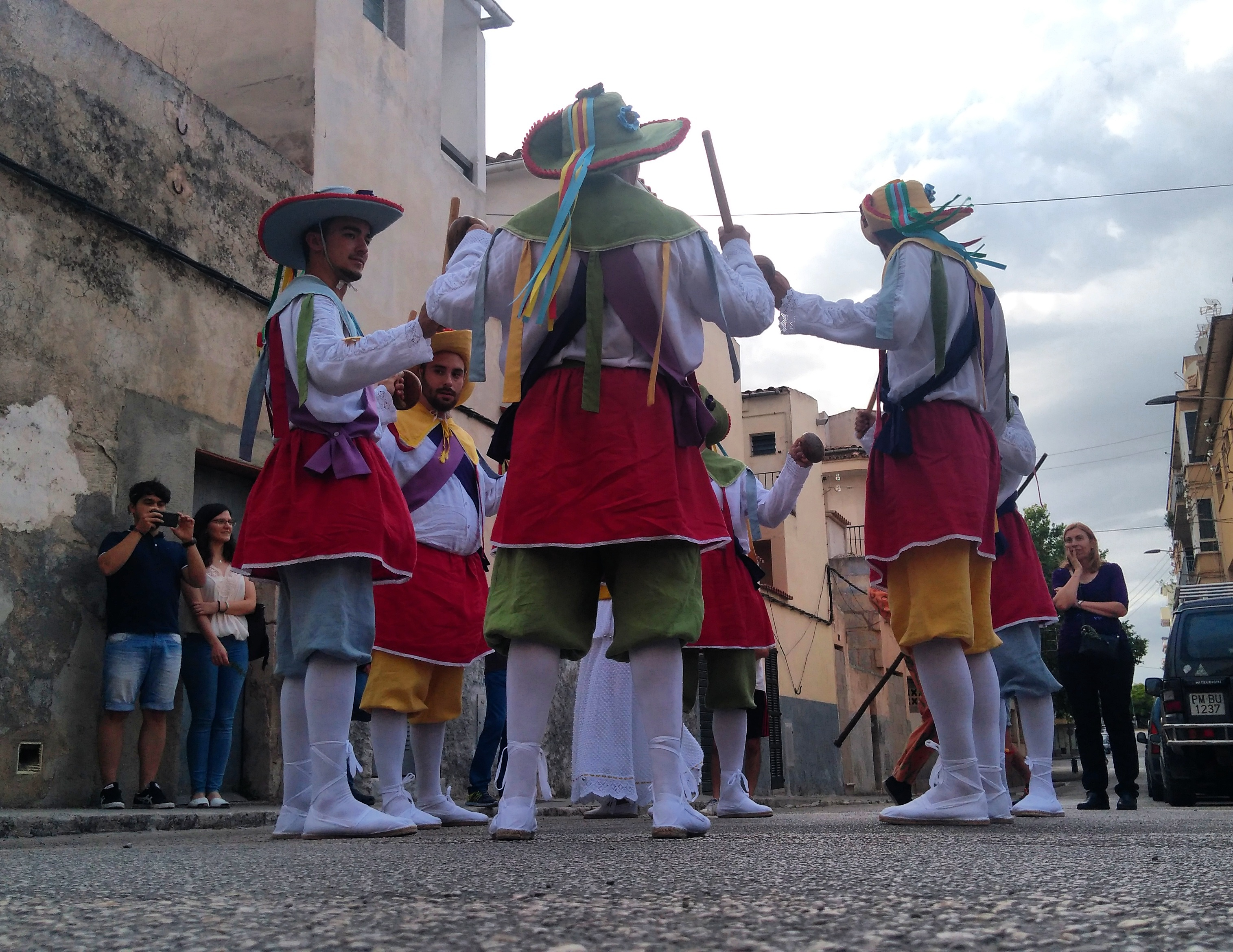 Manacor "Cossiers" dancing "Broquers" dance This is a photography of a Folklore festival in Spain (Wikidata id Q20105477).